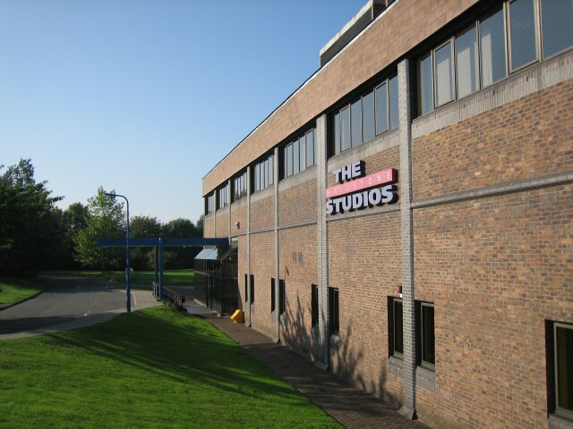 Maidstone Studios. Maidstone Television Studios at Vinters park, looking south. Originally built by TVS who became Meridian. Now privately owned.